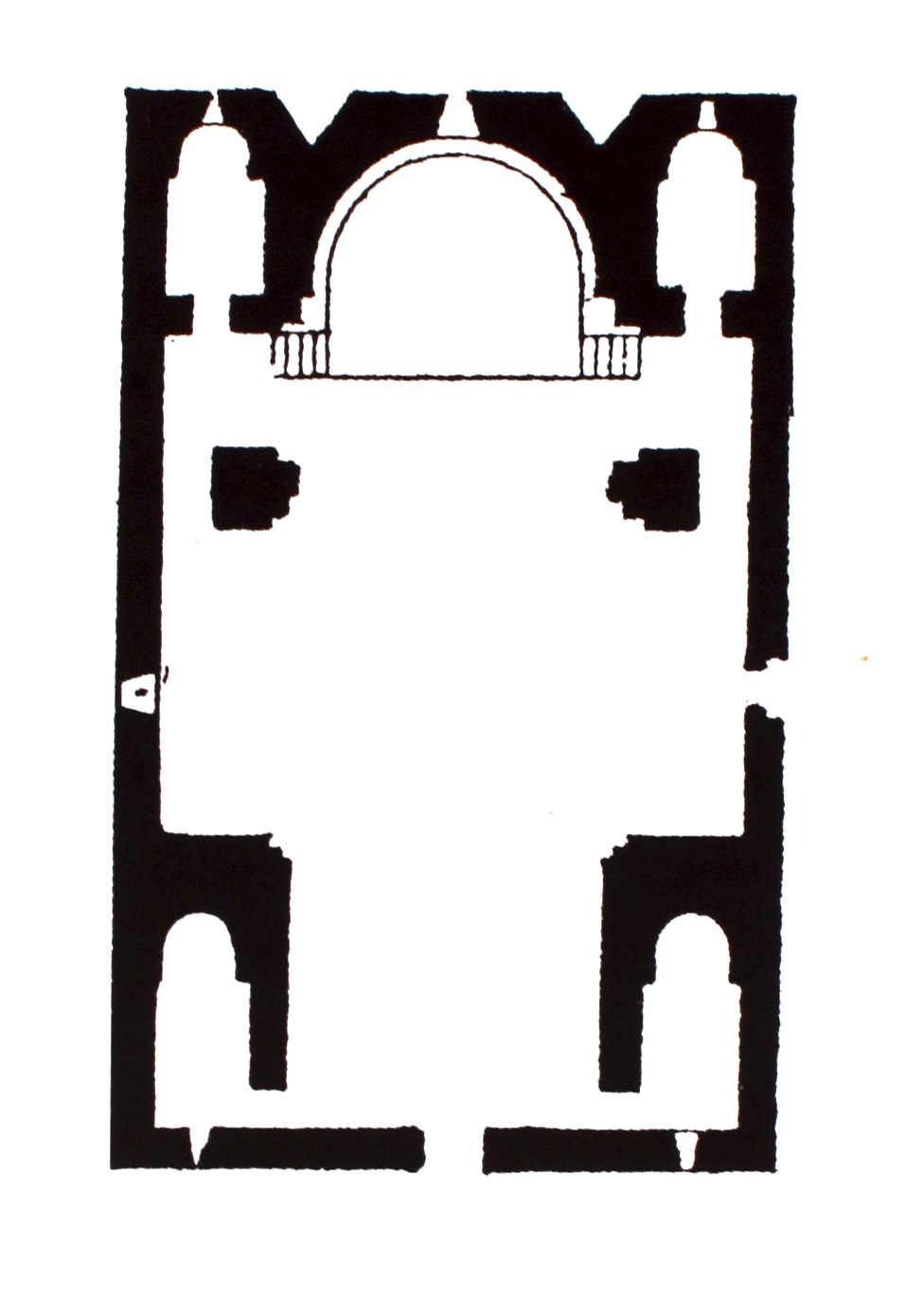 Plan of St. Paulus and St. Peter church in Tatev monastery